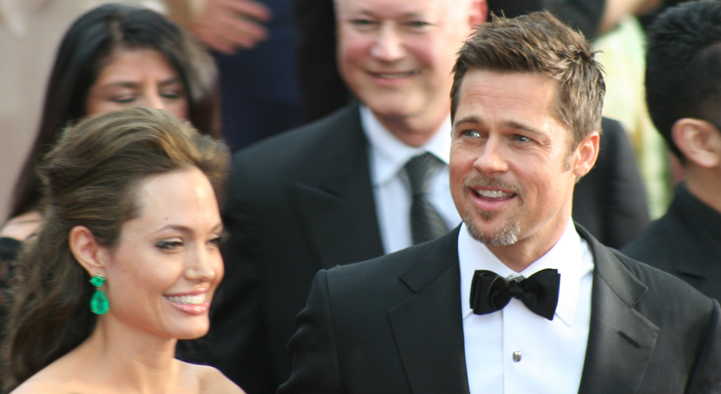 Actors Angelina Jolie and Brad Pitt at the 81st Academy Awards